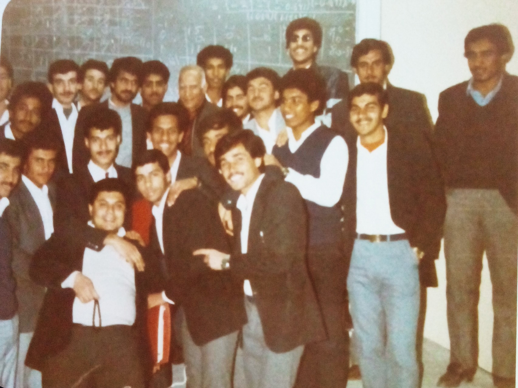 A students in the College - University of Basra - Iraq 1986